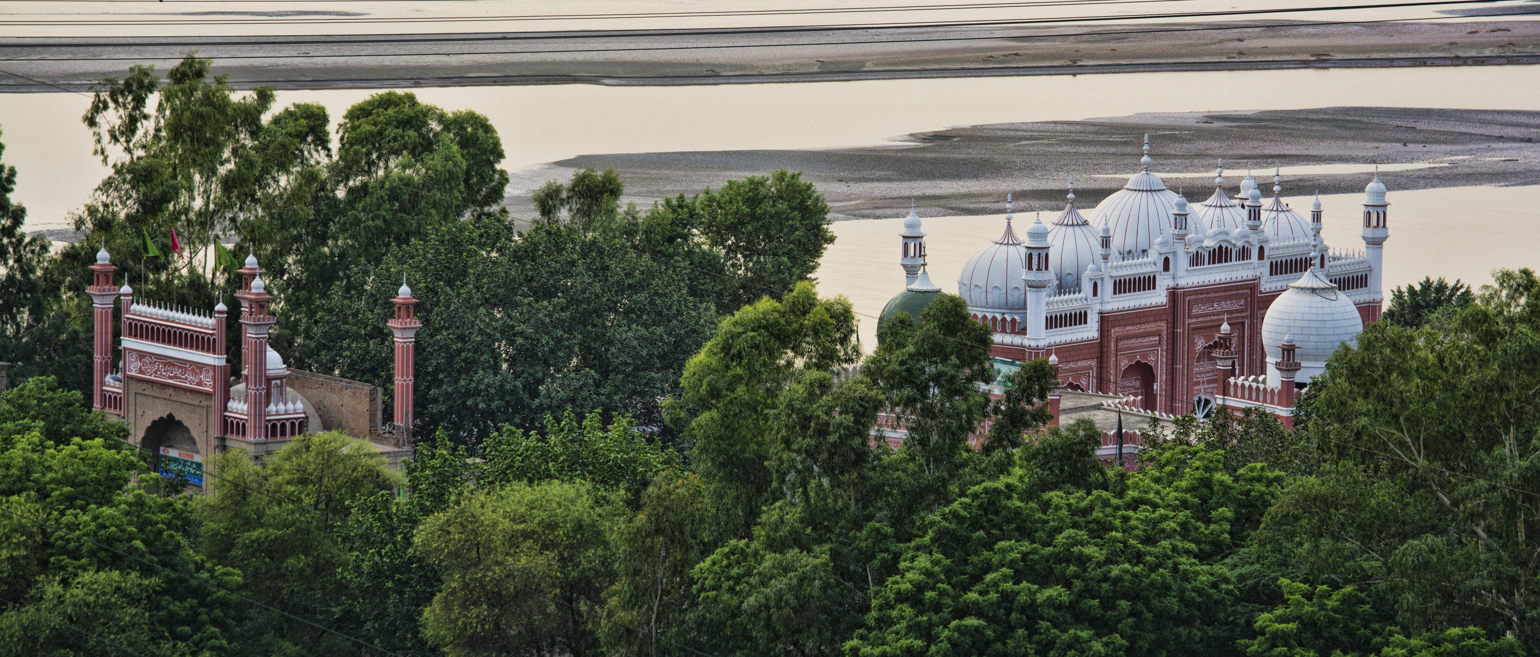 Shrine of Shah Burhan This is a photo of a monument in Pakistan identified as the PB-21